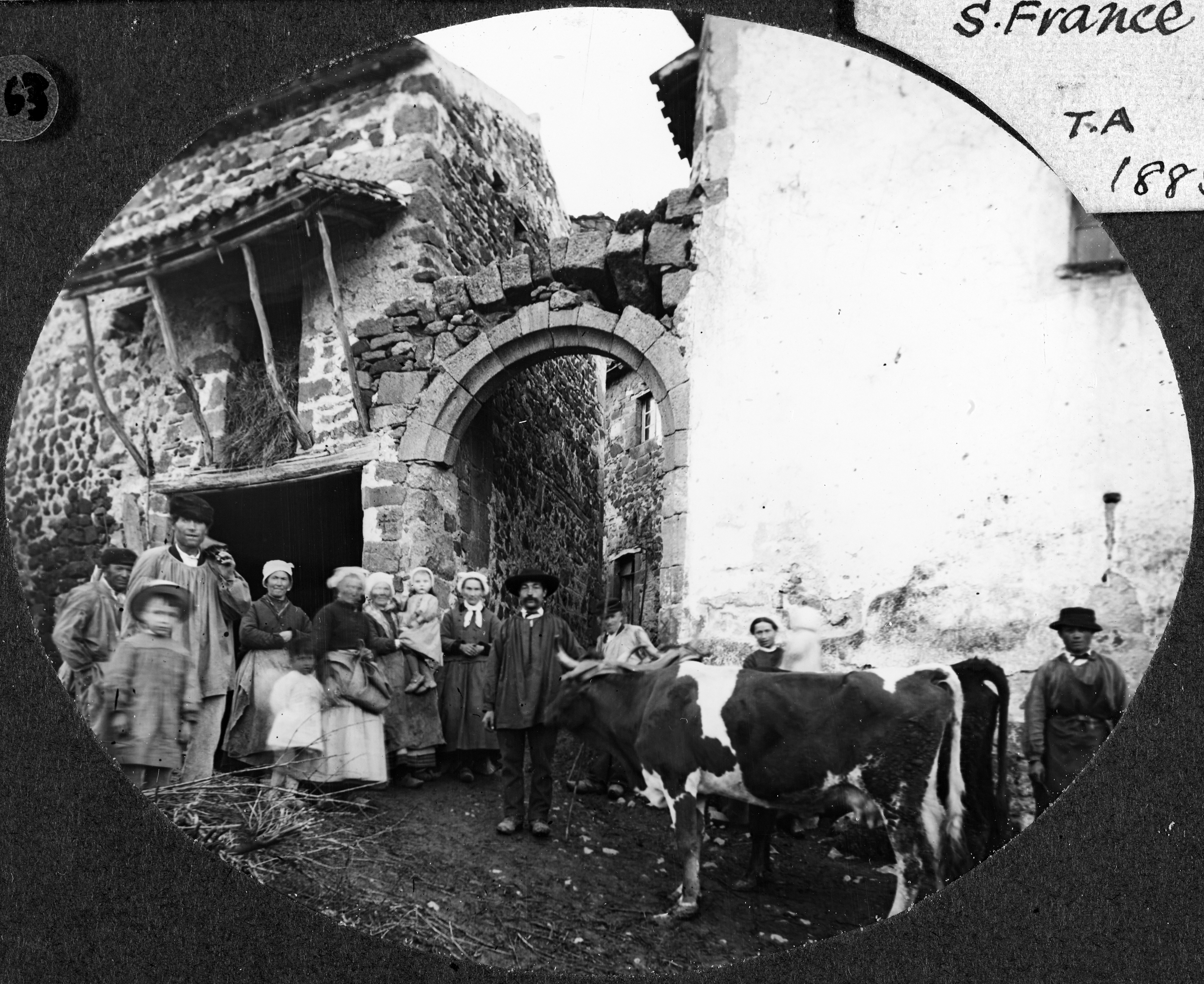 One slide and two negatives. Two old buildings of stone, separated by a narrow street over which is an arch. Group of twelve men, women and children in peasant dress and two cows. People blurred in YORYM : TA363.a.